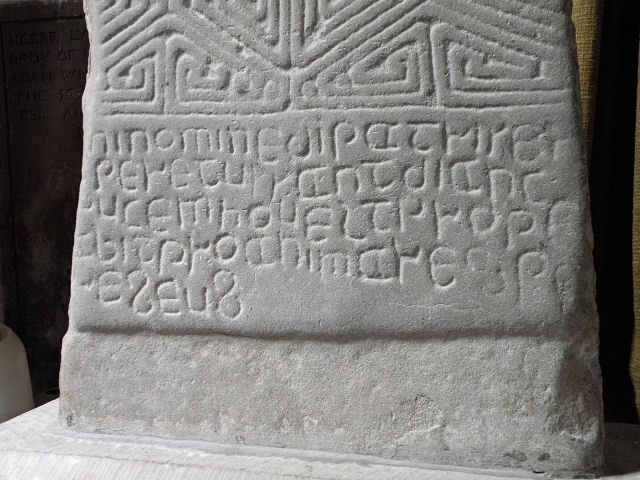 Inscription on Houelt Cross. The lettering is a hard-to-read uncial script and oddly spelt Latin. The guidebook expounds it as: (I)N INOMINE D(E)I PATRIS ET (S)PERETS SANTDI ANC (C)RUCEM HOUELT PROPE- (R)ABIT PRO ANIMA RES P(ATR) ES EUS "In the name of the God of Father and of the Son and of the Holy Spririt. Houelt prepared this cross for the soul of Res his father." The dedicator is thought to be Hywel ap Rhys, 9th century king of Glywysing. The complete cross is shown in 544774